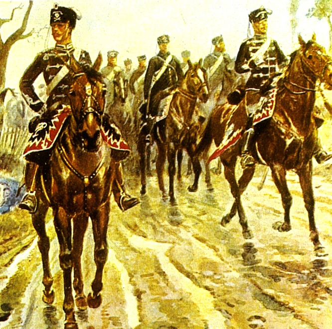 Prussian 2nd Hussars, early 20th century.